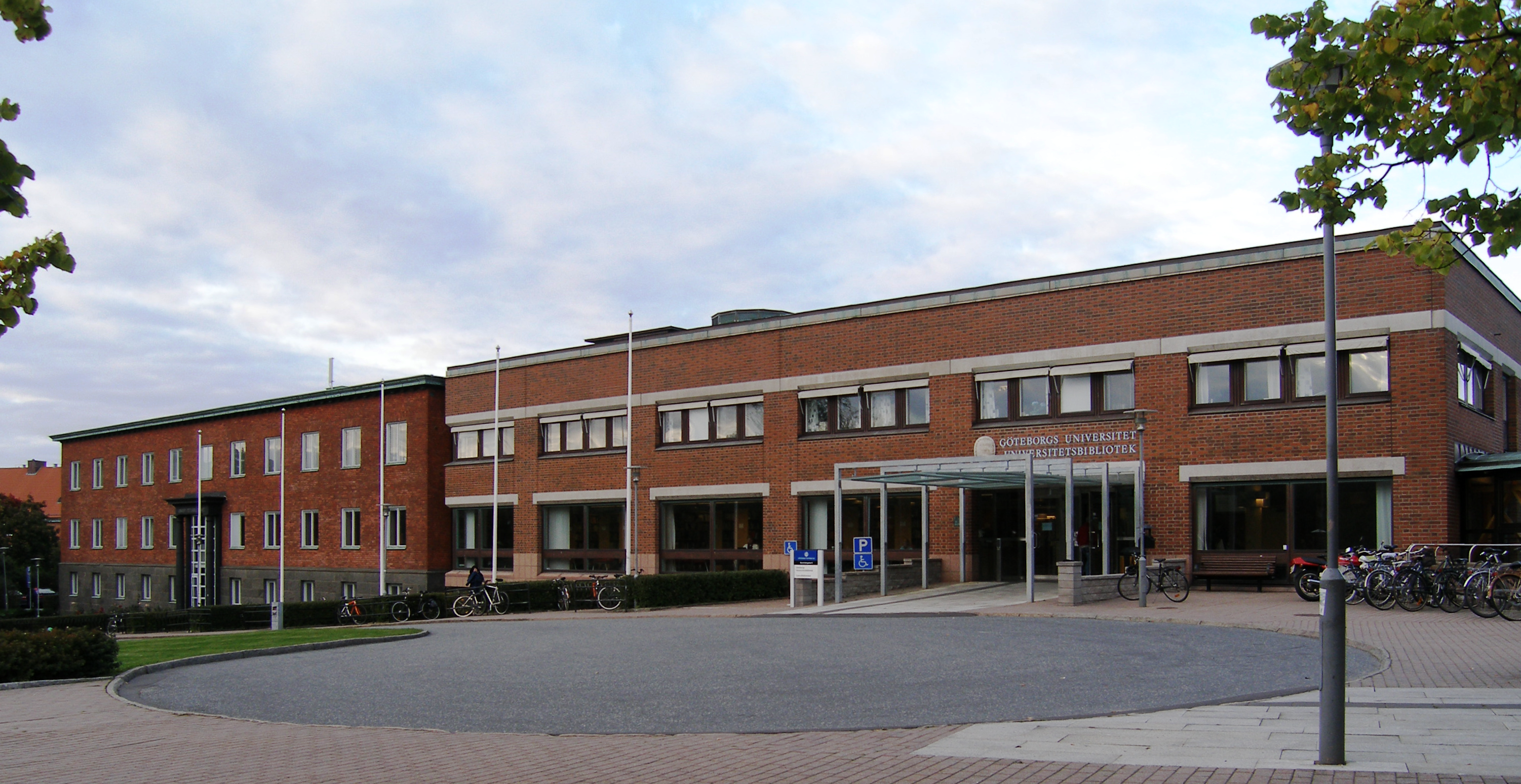 Gothenburg University Library, Central Library